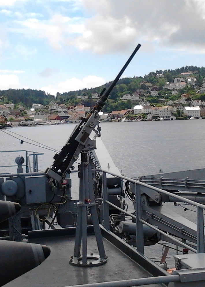 Norwegian M2 Browning machinegun used on naval military wessels